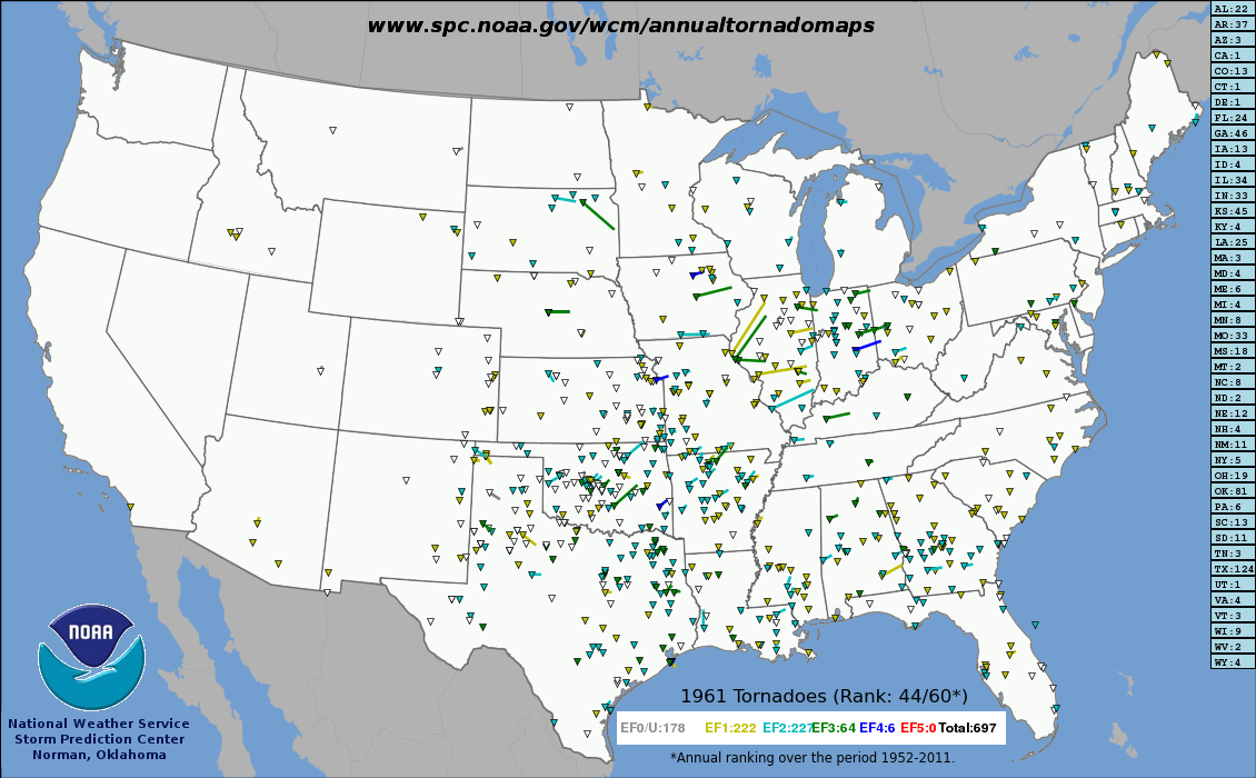 Tracks of all US tornadoes in 1961.